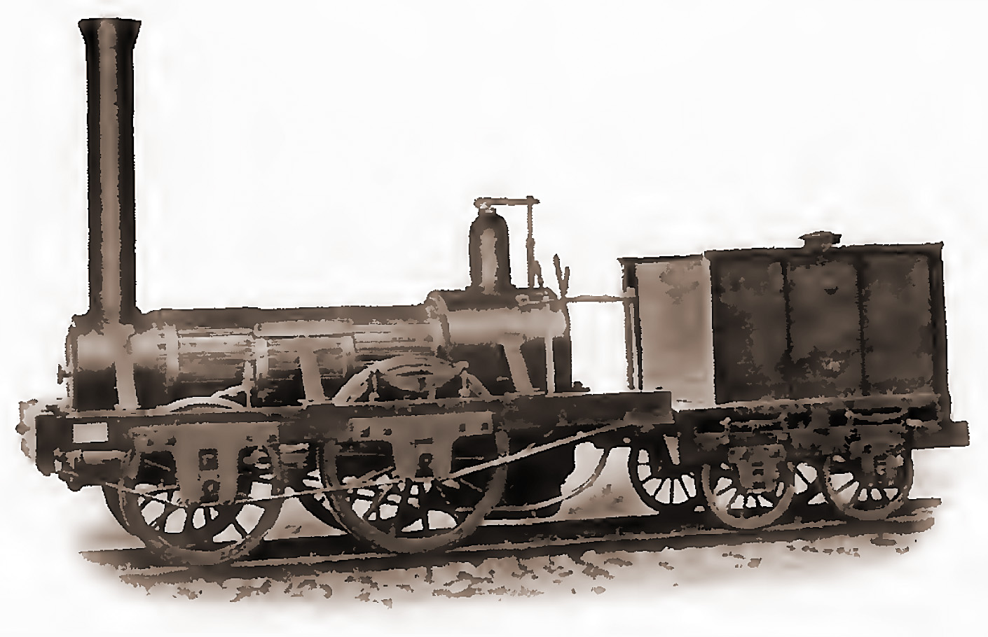 Matthias Baldwin's steam locomotive, "Old Ironsides," 1832.